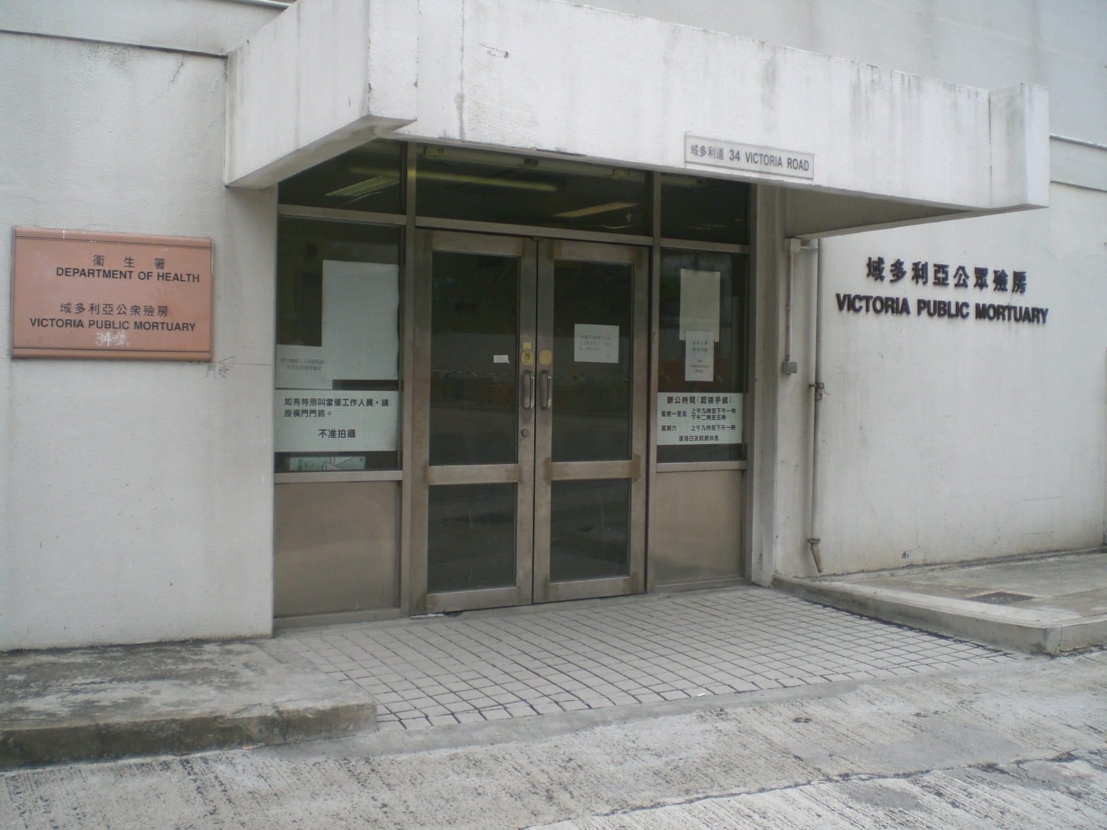 Victoria Public Mortuary: 34 Sai Ning Street Victoria